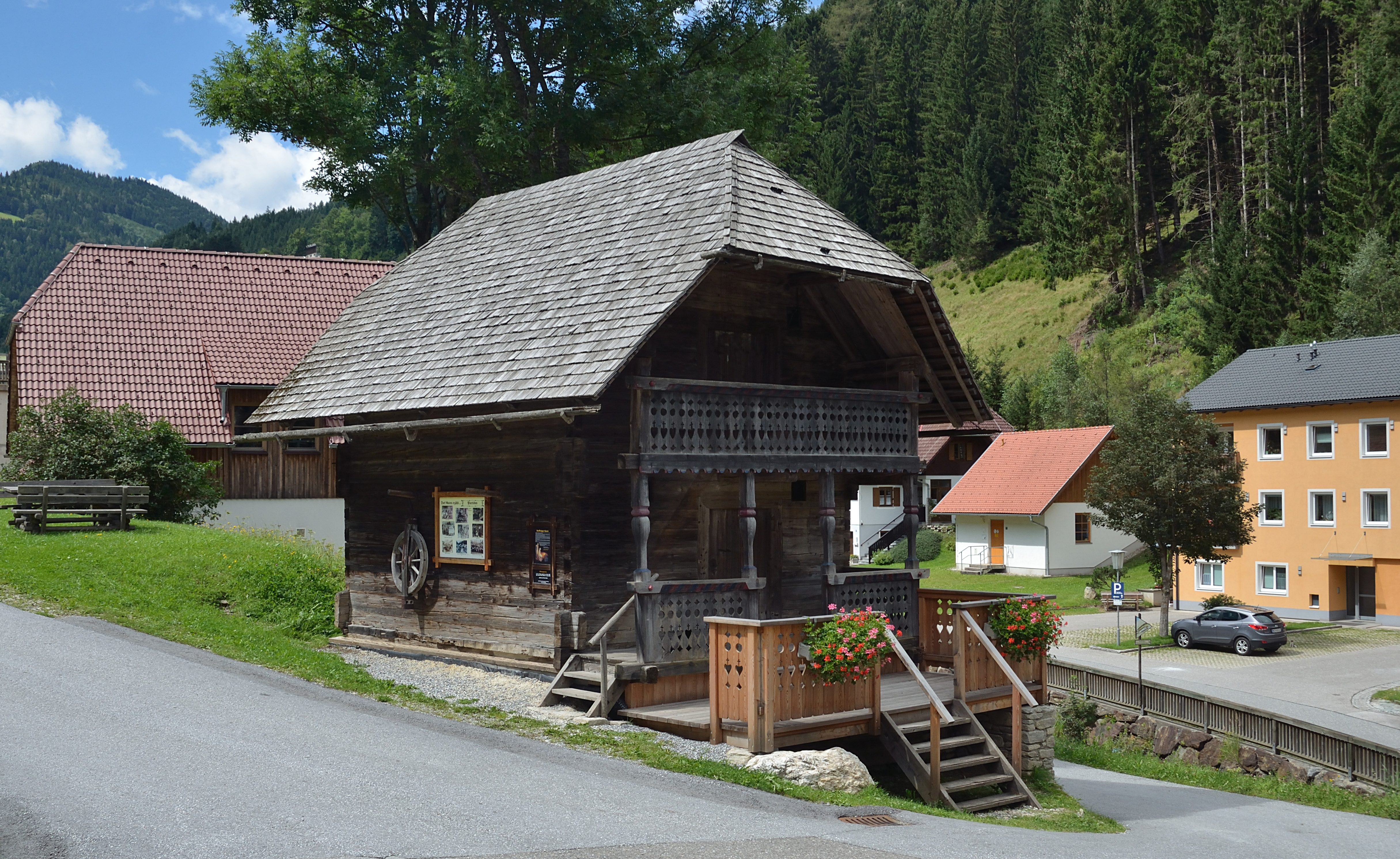 Granary of the rectory of Gasen, Styria. It is used now as a museum containing a nativity scene with life-sized figures created by local artist Alfred Kopp in 1999.